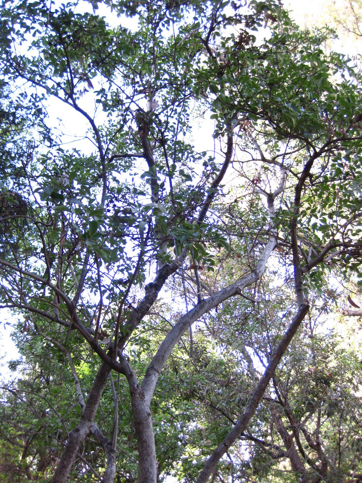 Photographed Mildred E. Mathias Botanical Garden at UCLA (Los Angeles, California) in November